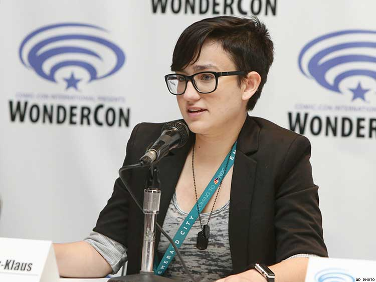 Taylor-Klaus speaking at Wondercon in 2017.